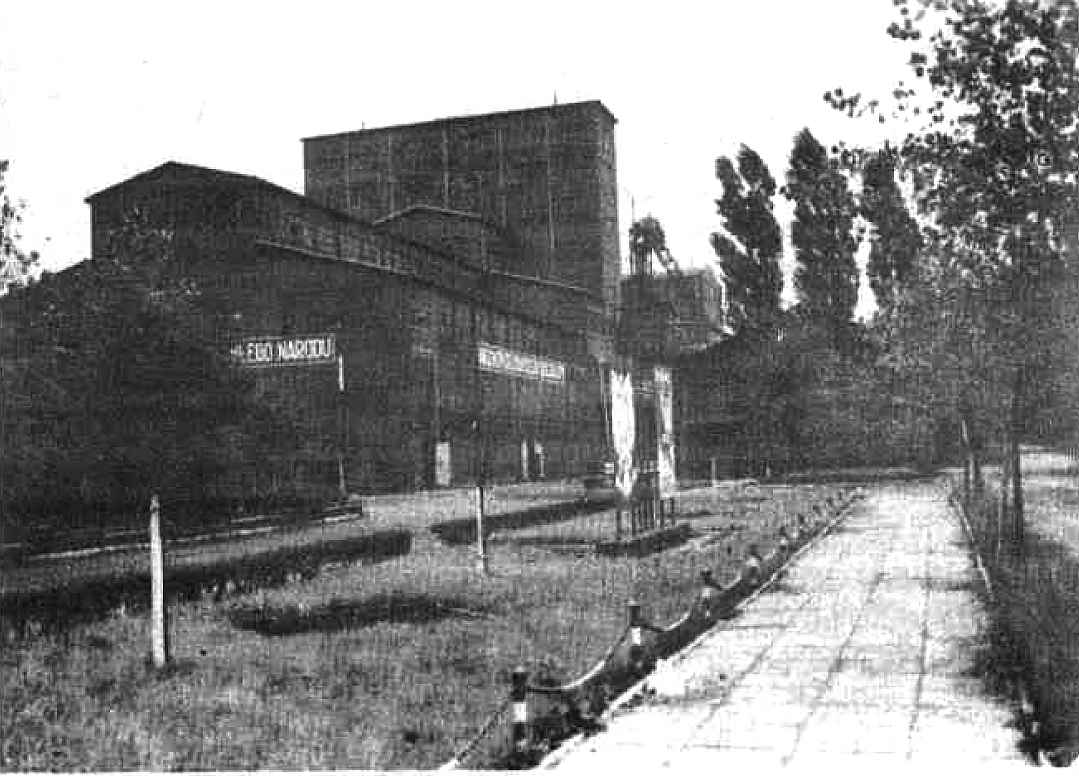 Lead and zinc ore mine "Nowy Dwór" in Bytom, Upper Silesia Poland, 1970 (till 1945 "Neuhofgrube" in Beuthen, Gernany)